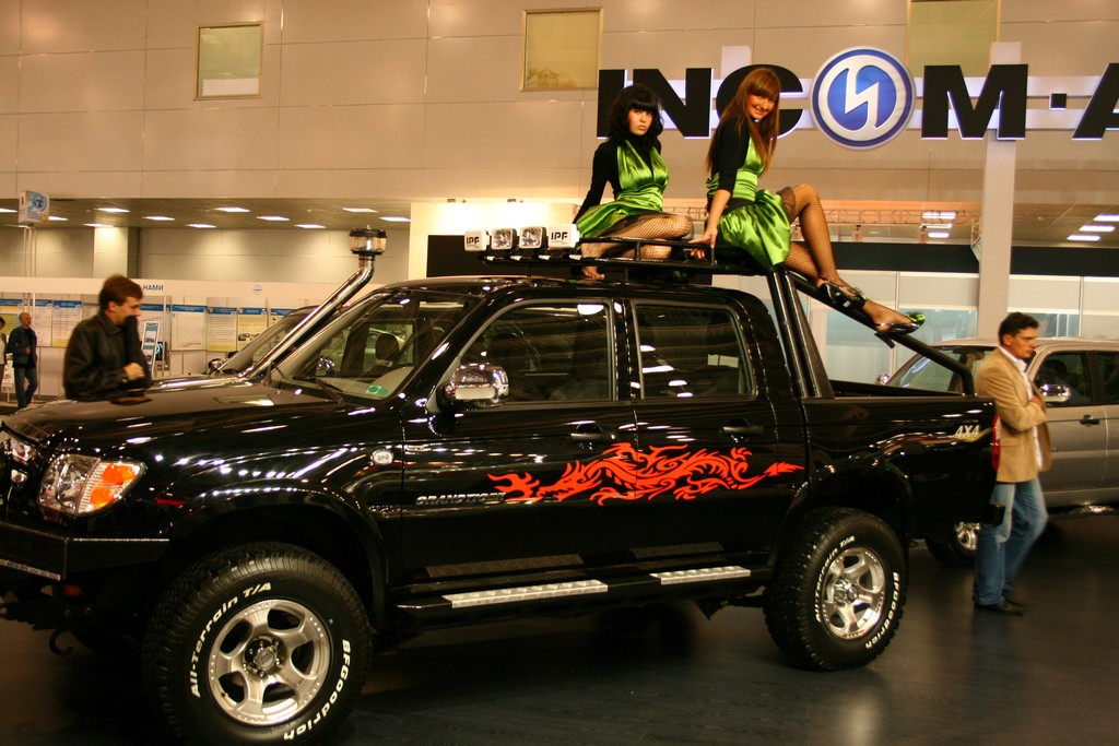 Zhongxing Grandtiger in Moscow International Motor Show 2008.